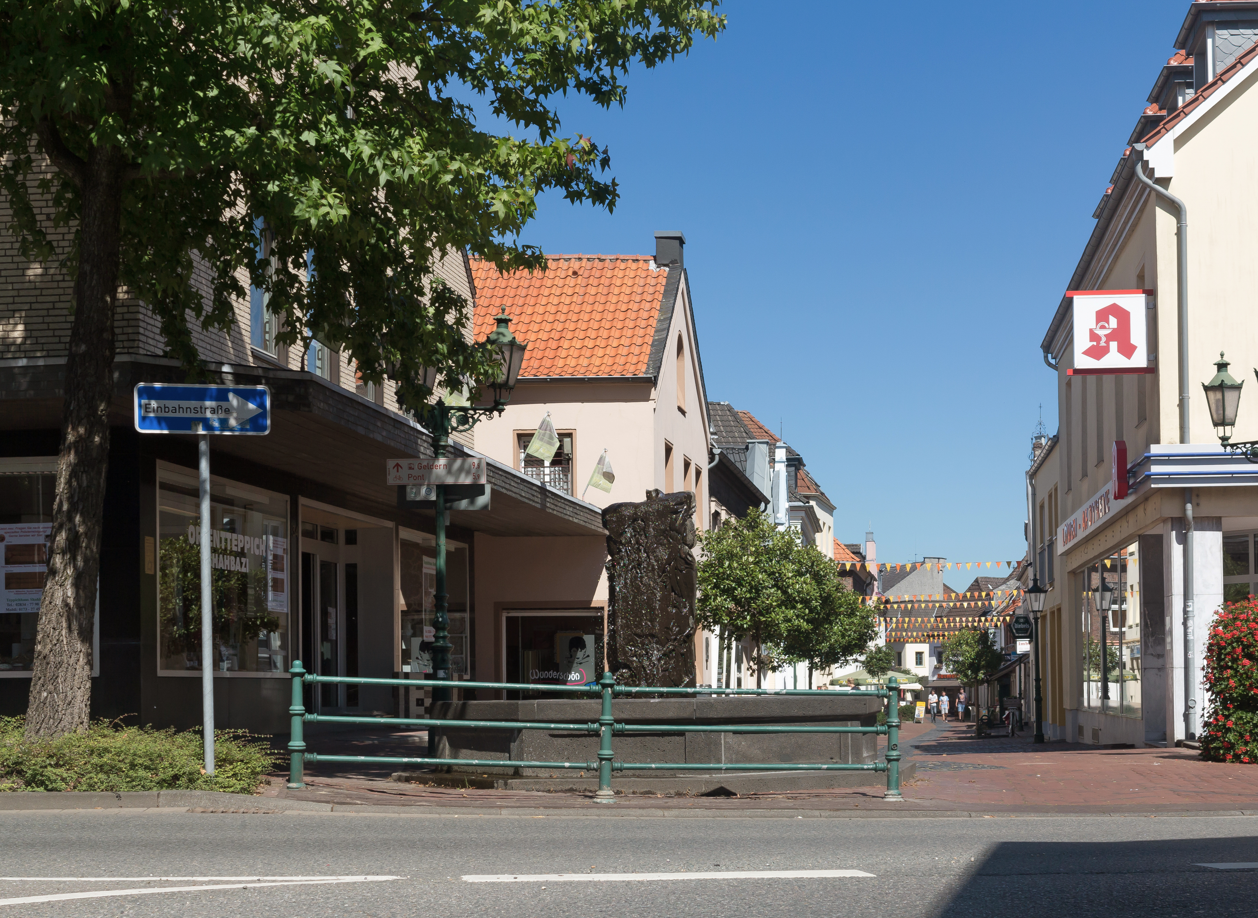 Straelen, view to a street: die Venloer Strasse